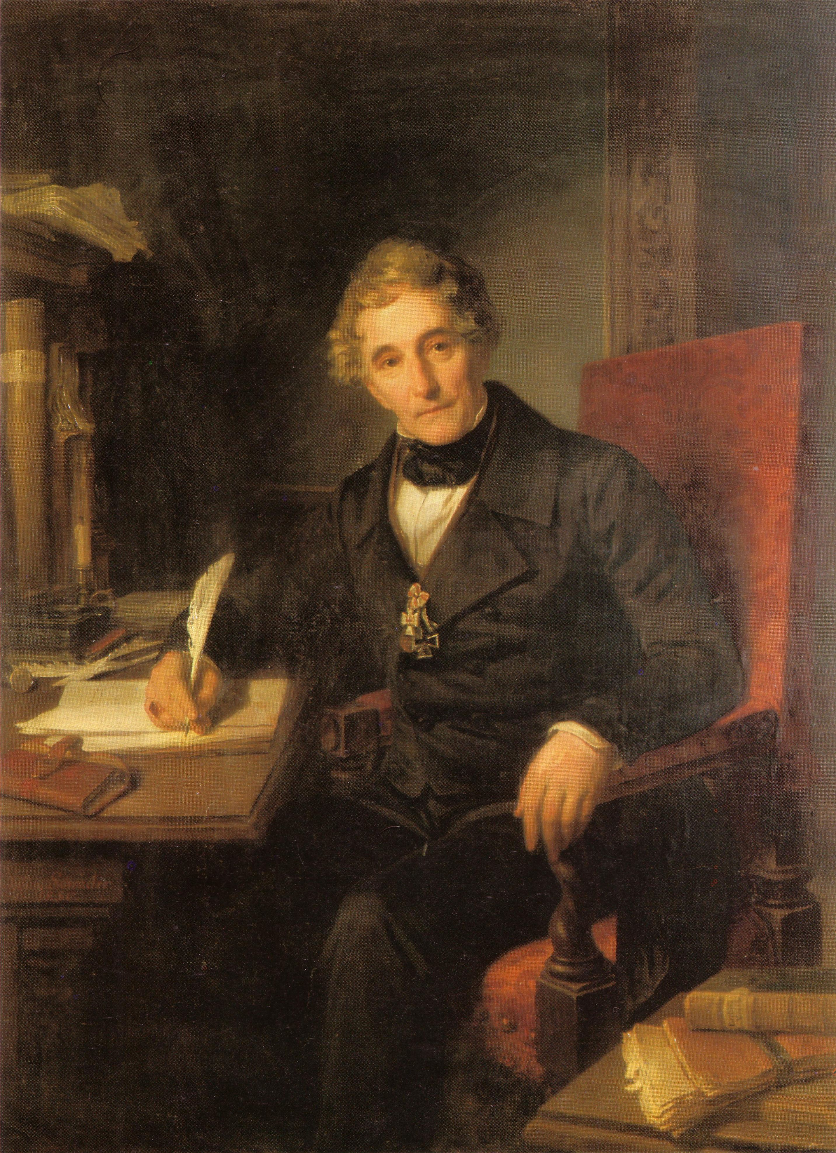 Portrait of Heinrich Andreas de Cuvry (1785-1869)